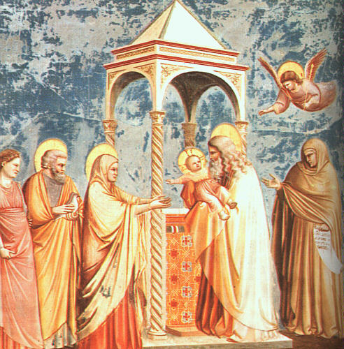 Life of the Virgin